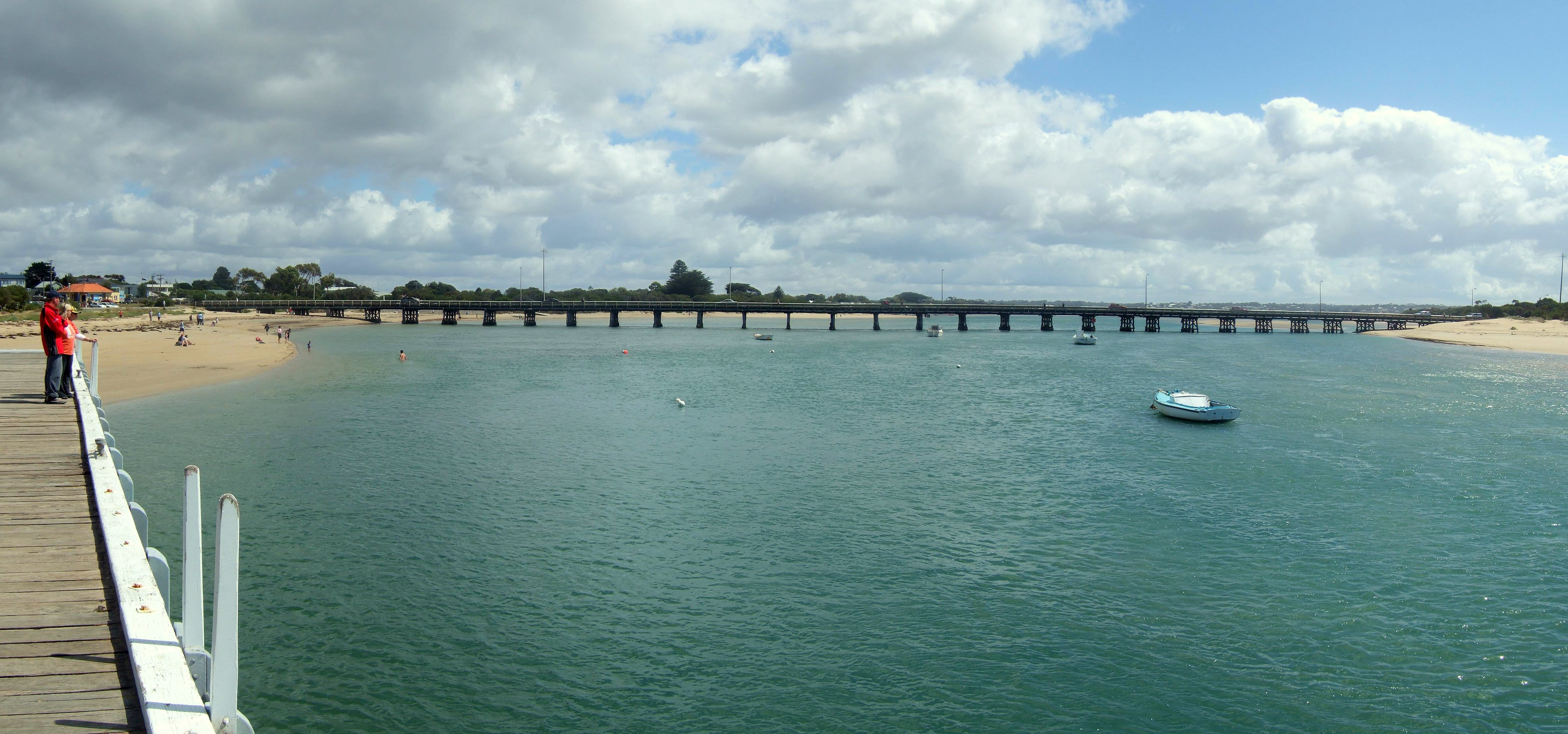 A panoramic (stitched) view of the Barwon Heads bridge. Taken by Stevage.